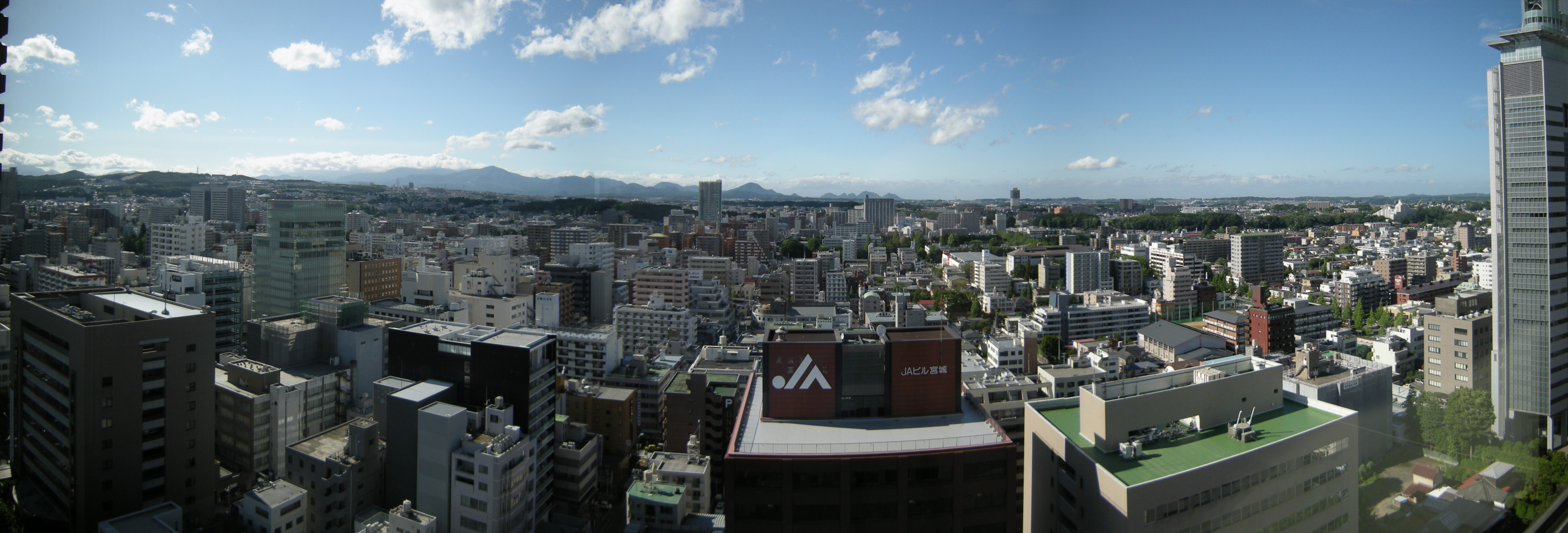 North panoramic view from the 18th floor of Miyagi prefectual office building, in Sendai city, Miyagi, Japan.